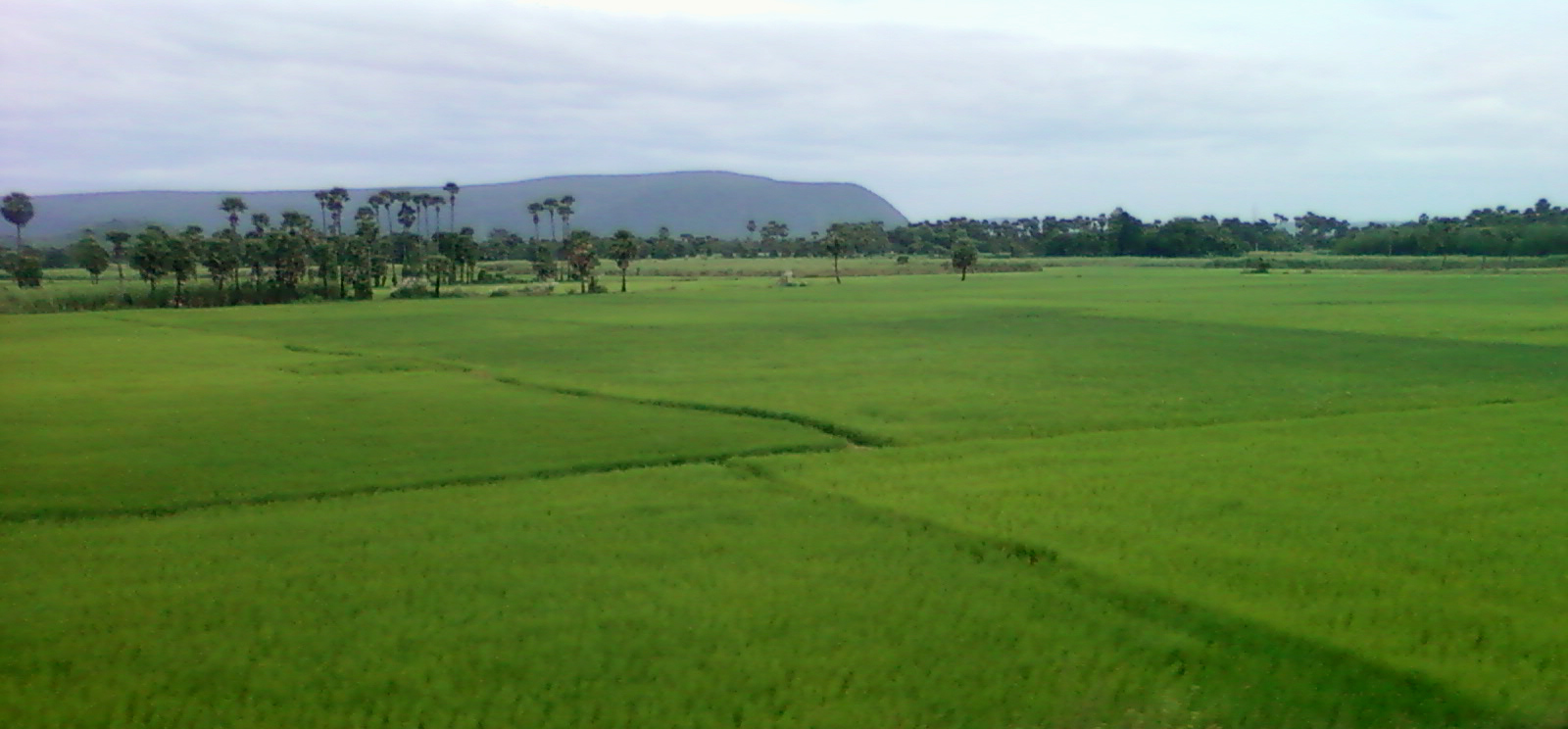 Landscape view near Elamanchali in Visakhapatnam district